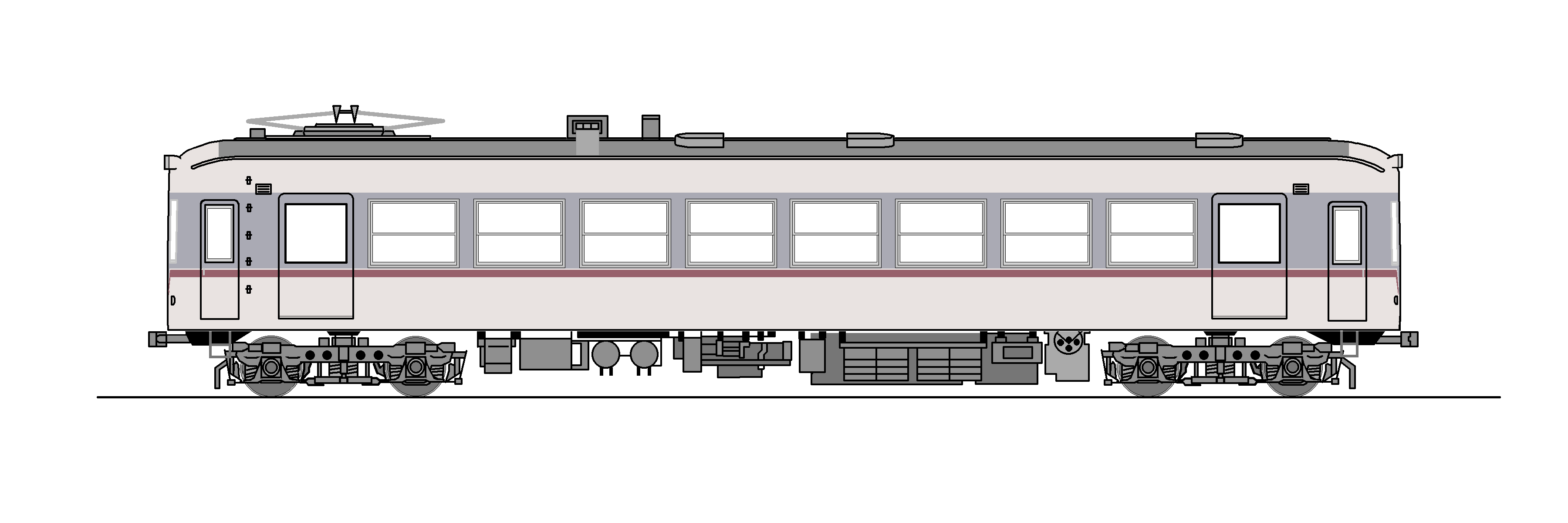 The side view of the EMU series 14790(Moha 14792) of Toyama Chihou Railway.